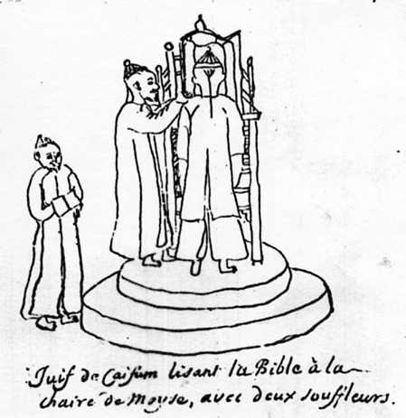 A Chinese Jewish worshiper reading the Torah.